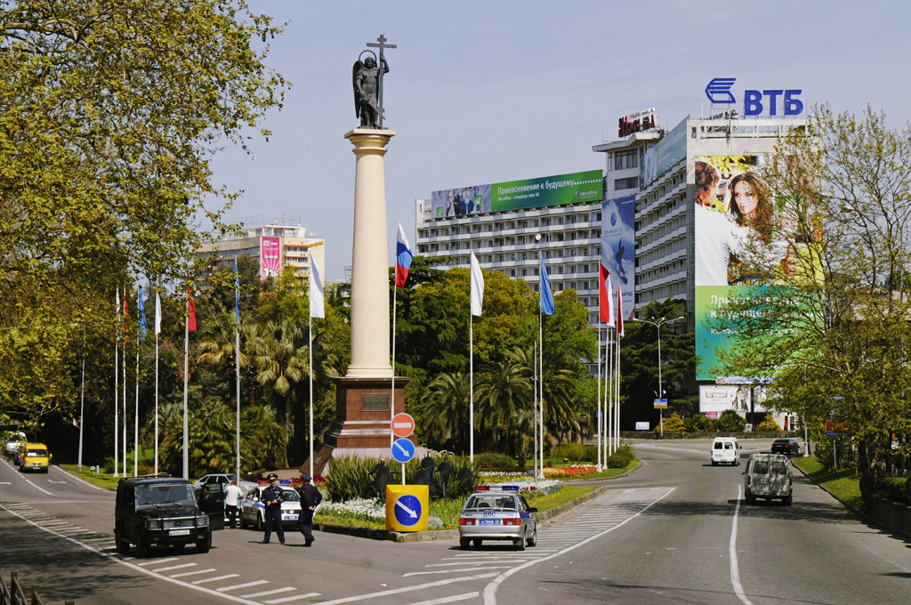 “A monument to Archangel Michael in Sochi”. A monument to Archangel Michael on Sochi's Kurortny [Resort] Avenue near Moskva hotel.